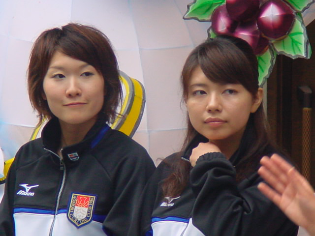 Japanese curlers Moe Meguro (left) and Mari Motohashi (right), at a commercial event in Tokyo, 2006